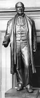 National Statuary Hall Collection: Samuel Jordan Kirkwood